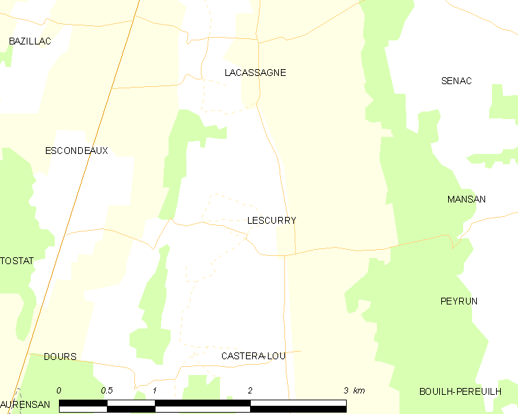 Map of French municipality